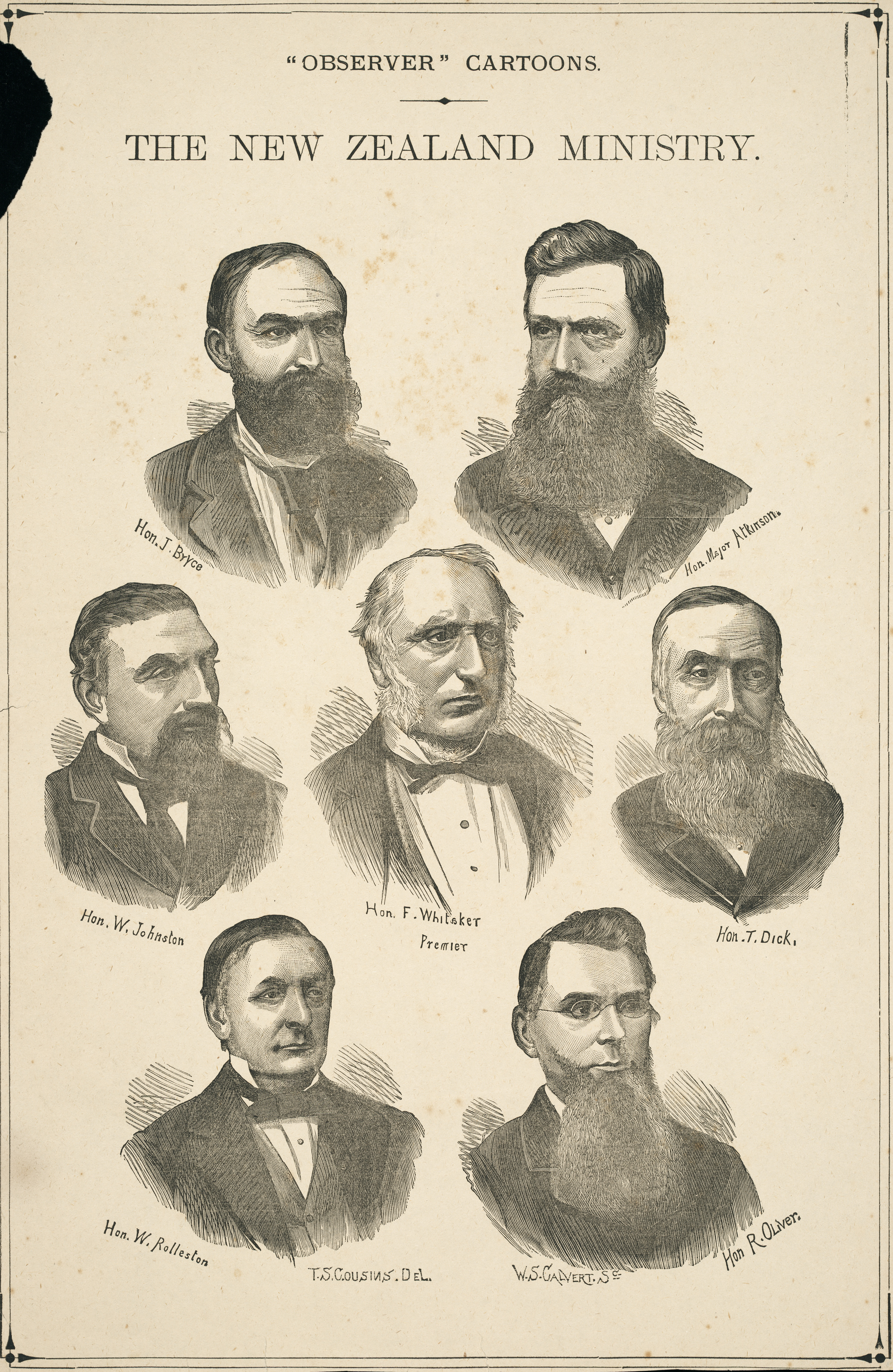 Shows a group of seven head and shoulders portraits of politicians in the Government Cabinet. In the centre is Hon Frederick Whitaker, and around him from top right are: Hon Major Atkinson, Hon T Dick, Hon R Oliver, Hon W Rolleston, Hon W Johnston and Hon J Bryce.